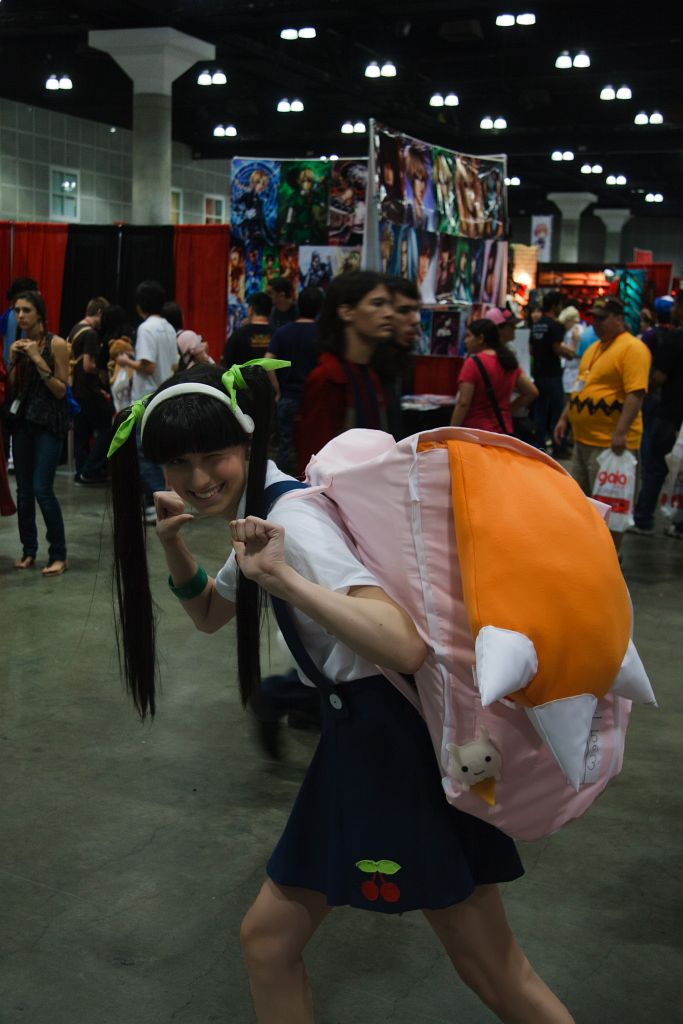 Cosplayer of Mayoi Hachikuji from Monogatari Series at Anime Expo 2010